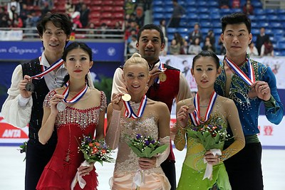 The pair skating at the 2013 Cup of China. From left: Pang Qing / Tong Jian (2nd), Aliona Savchenko / Robin Szolkowy (1st), Peng Cheng / Zhang Hao (3rd).